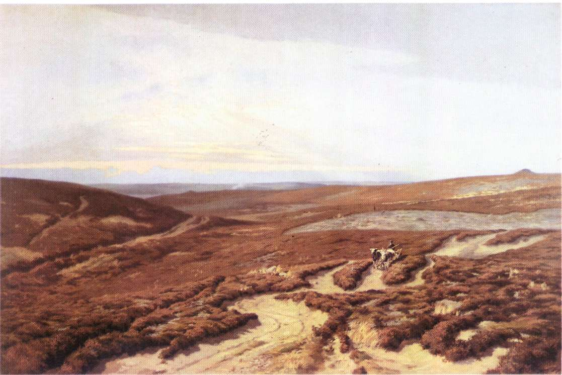 oil on canvasmedium QS:P186,Q296955;P186,Q12321255,P518,Q861259